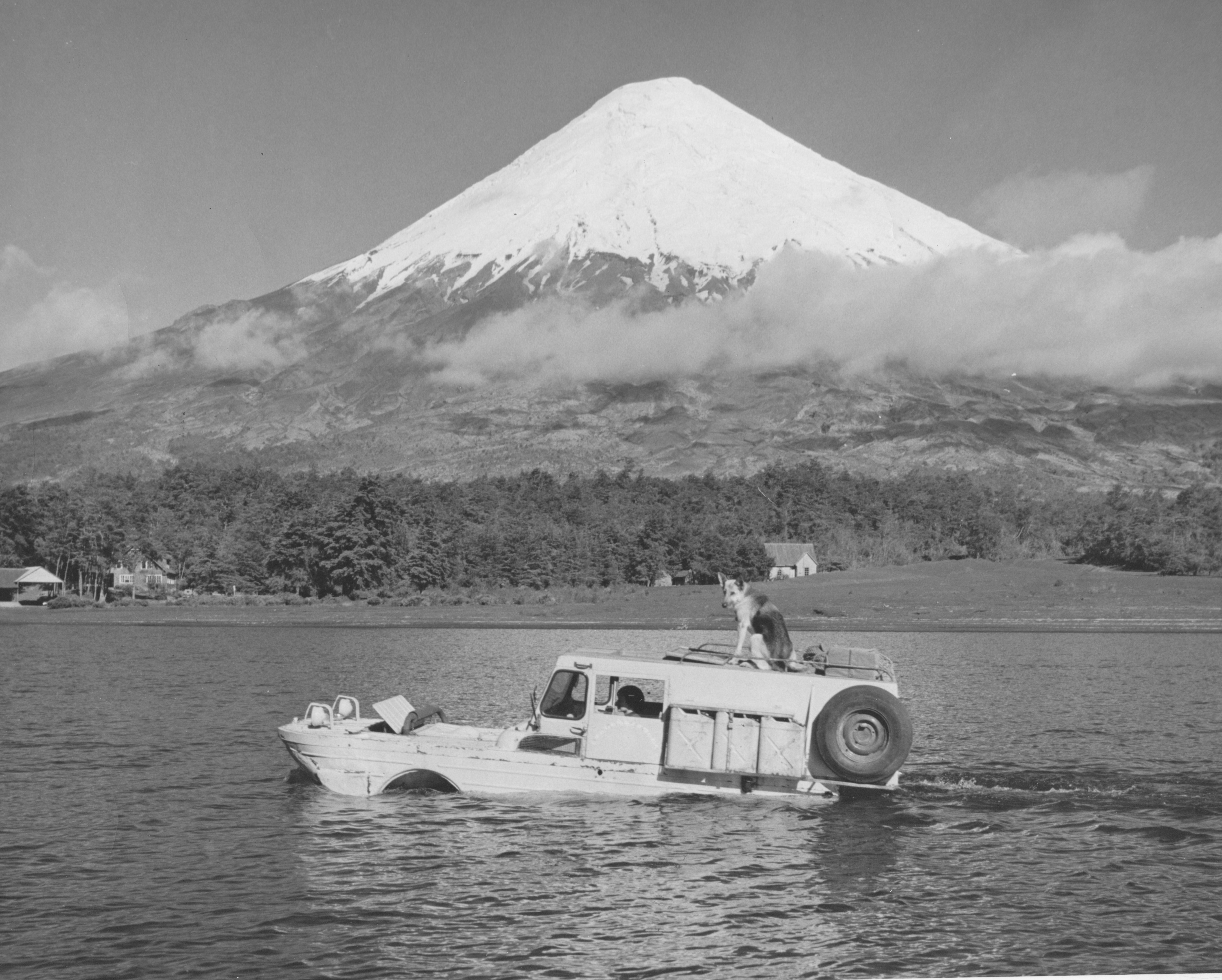 This is Helen Schreider's photo of La Tortuga on a lake in Chile.